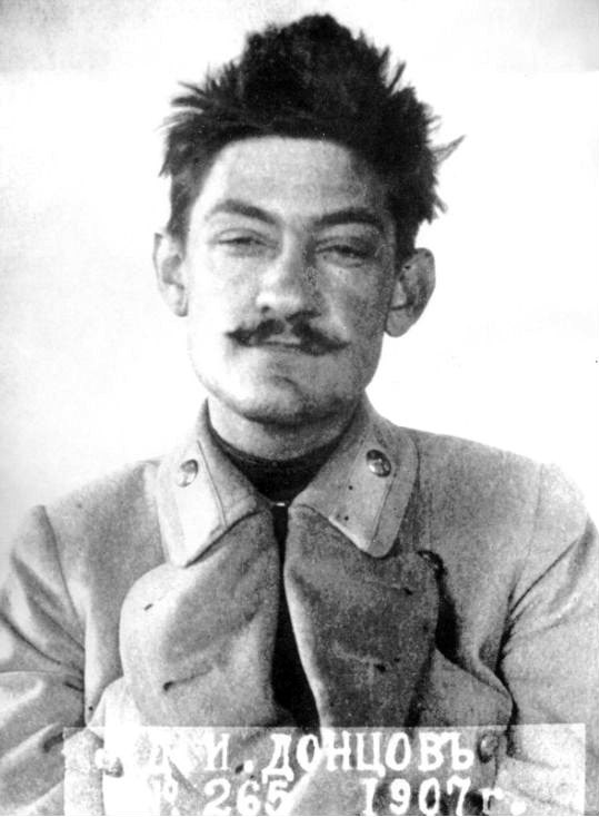 Dmitry Dontsov; Police photo, 1907